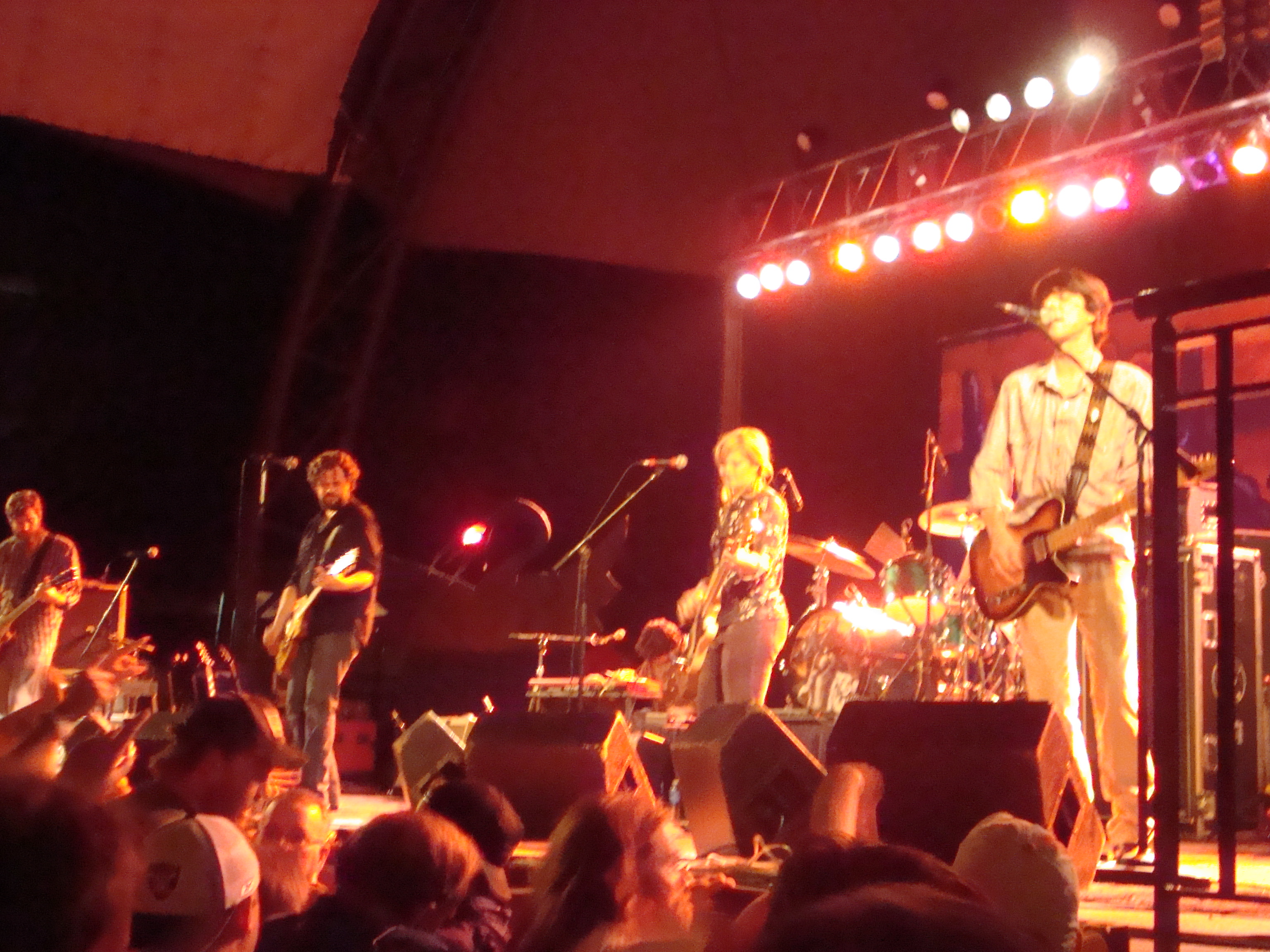 Drive-By Truckers in Charlottesville, VA, on September 20, 2008.